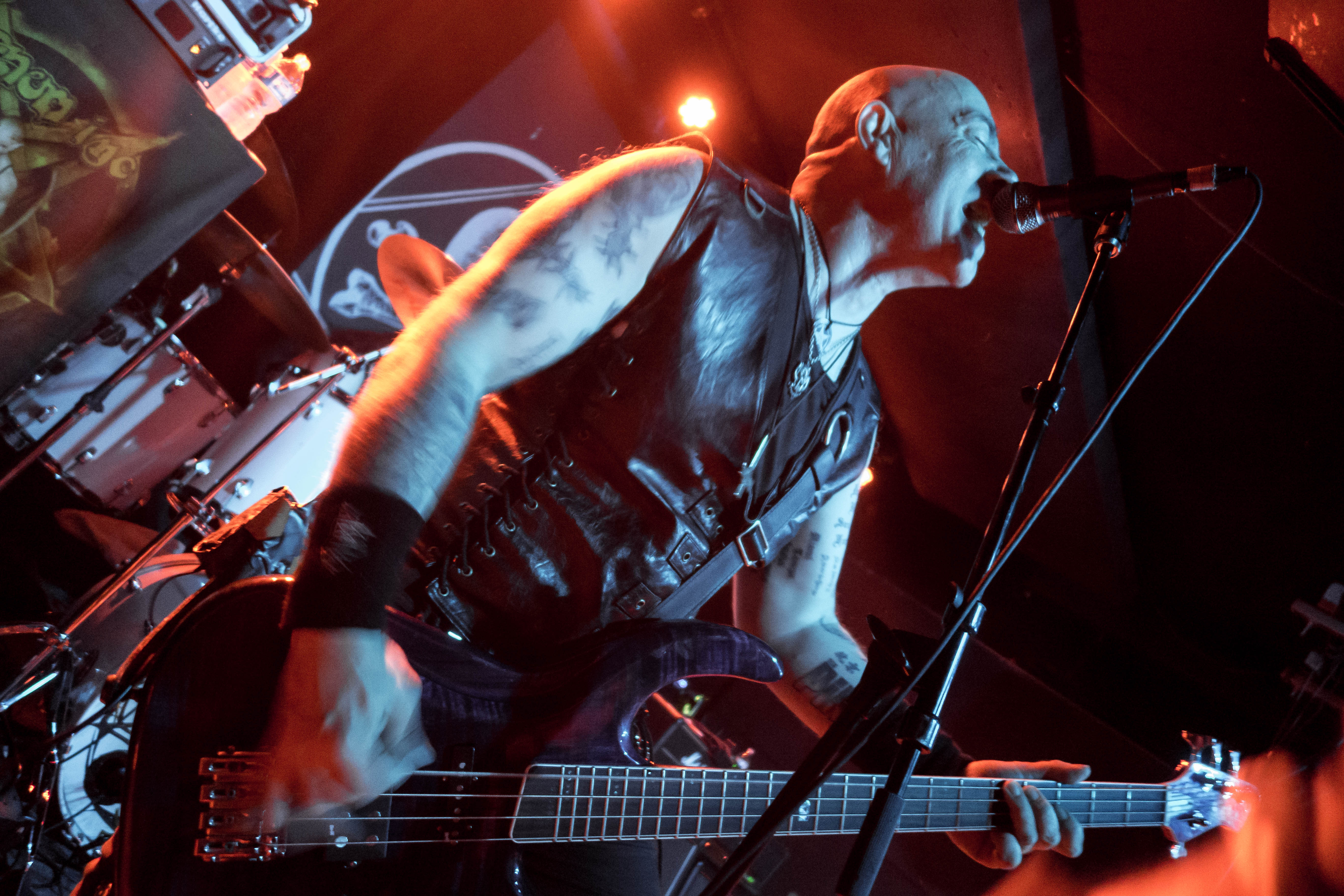 Venom Inc. performing at Saint Vitus Bar (Brooklyn, New York), October 3, 2017. Venom Inc. performing at Saint Vitus Bar (Brooklyn, New York), October 3, 2017.